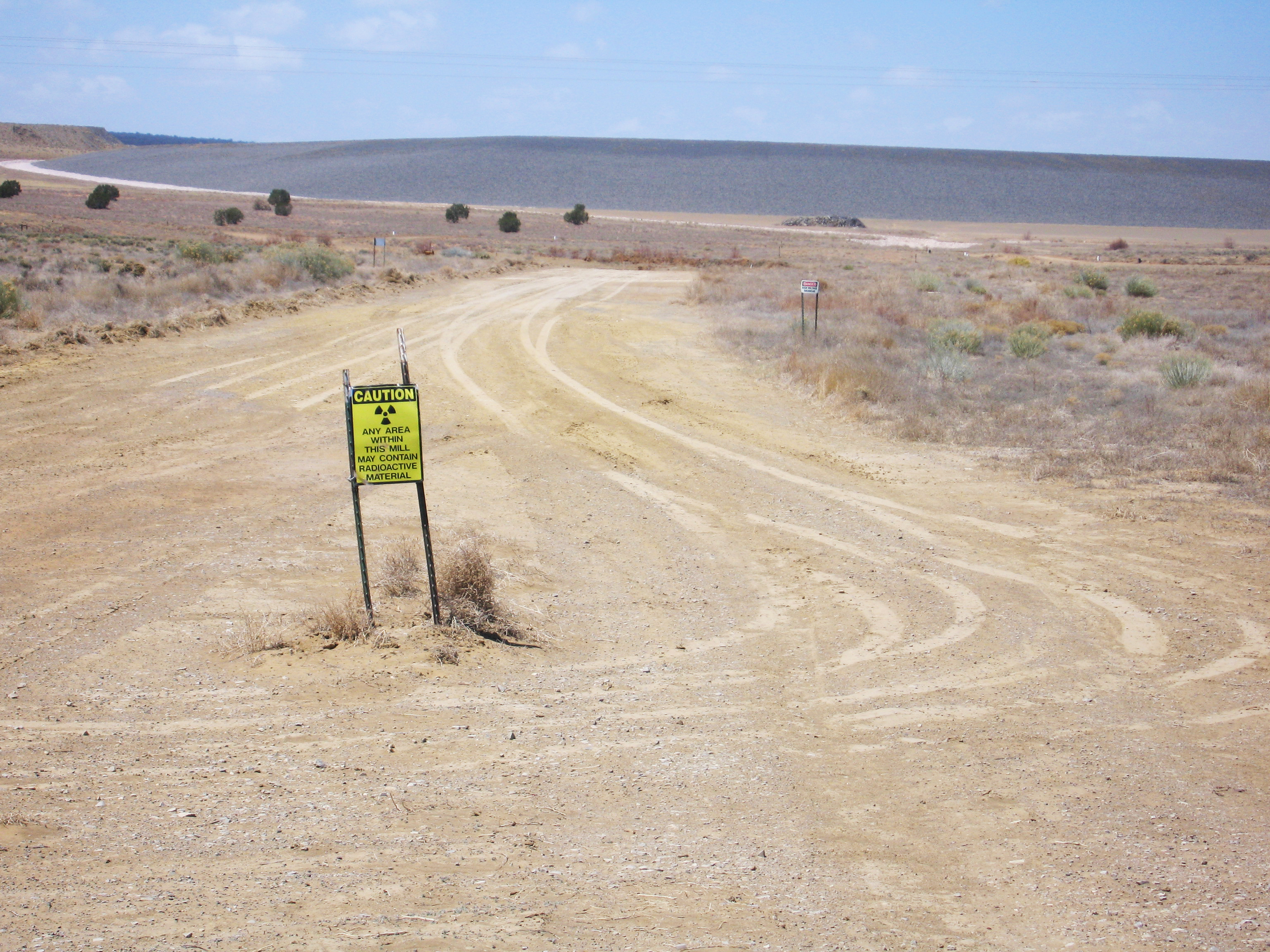 Radiation sign at Ambrosia Lake uranium mining area, New Mexico. Mound of gravel covering mining tailings in background.